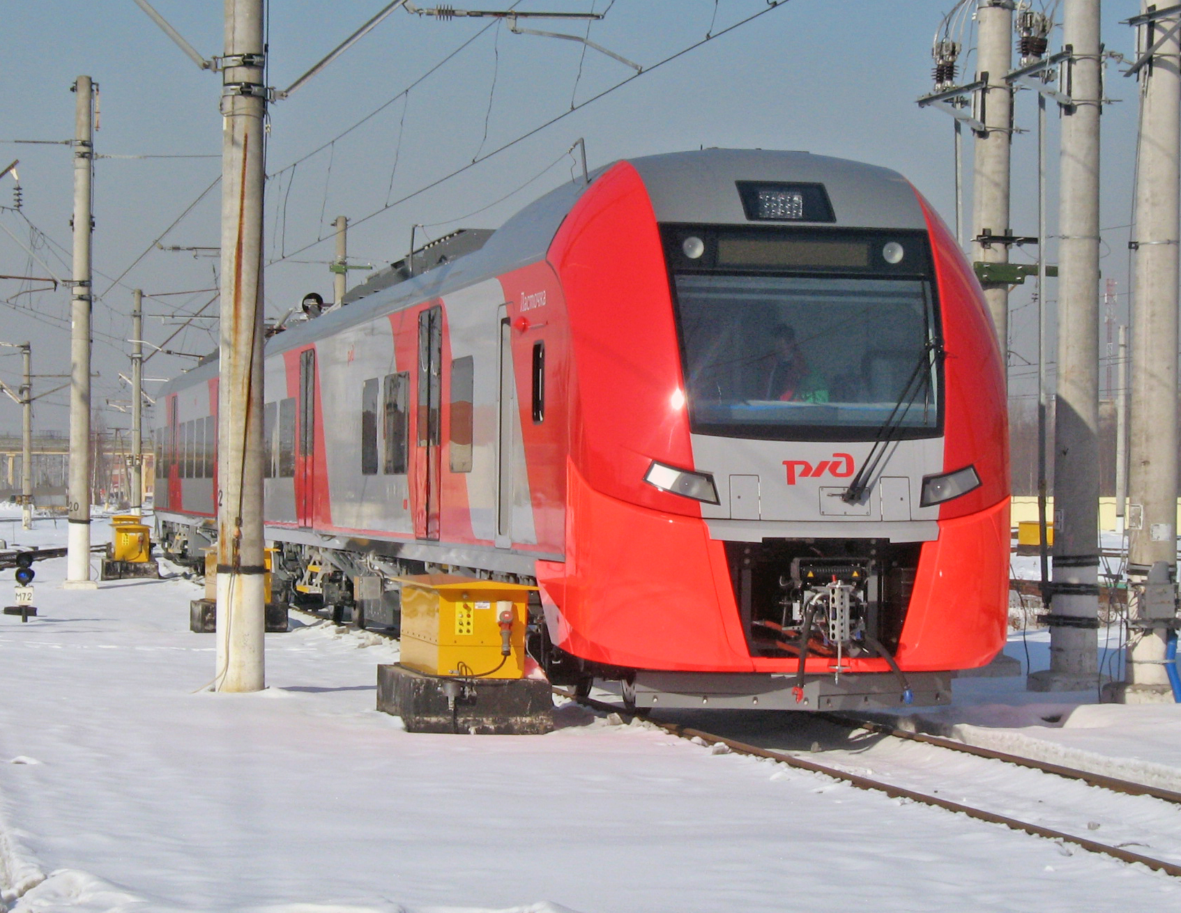 Electric train "Swallow" (project Desiro)